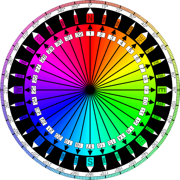 This is my own rendering of what a modern compass card can look like. Compass headings are denoted on this compass card by different colours. If you are thinking of converting this to SVG, you need to have a lot of patience, as this image uses a conical gradient, which is not supported by the SVG 1.1 specification.